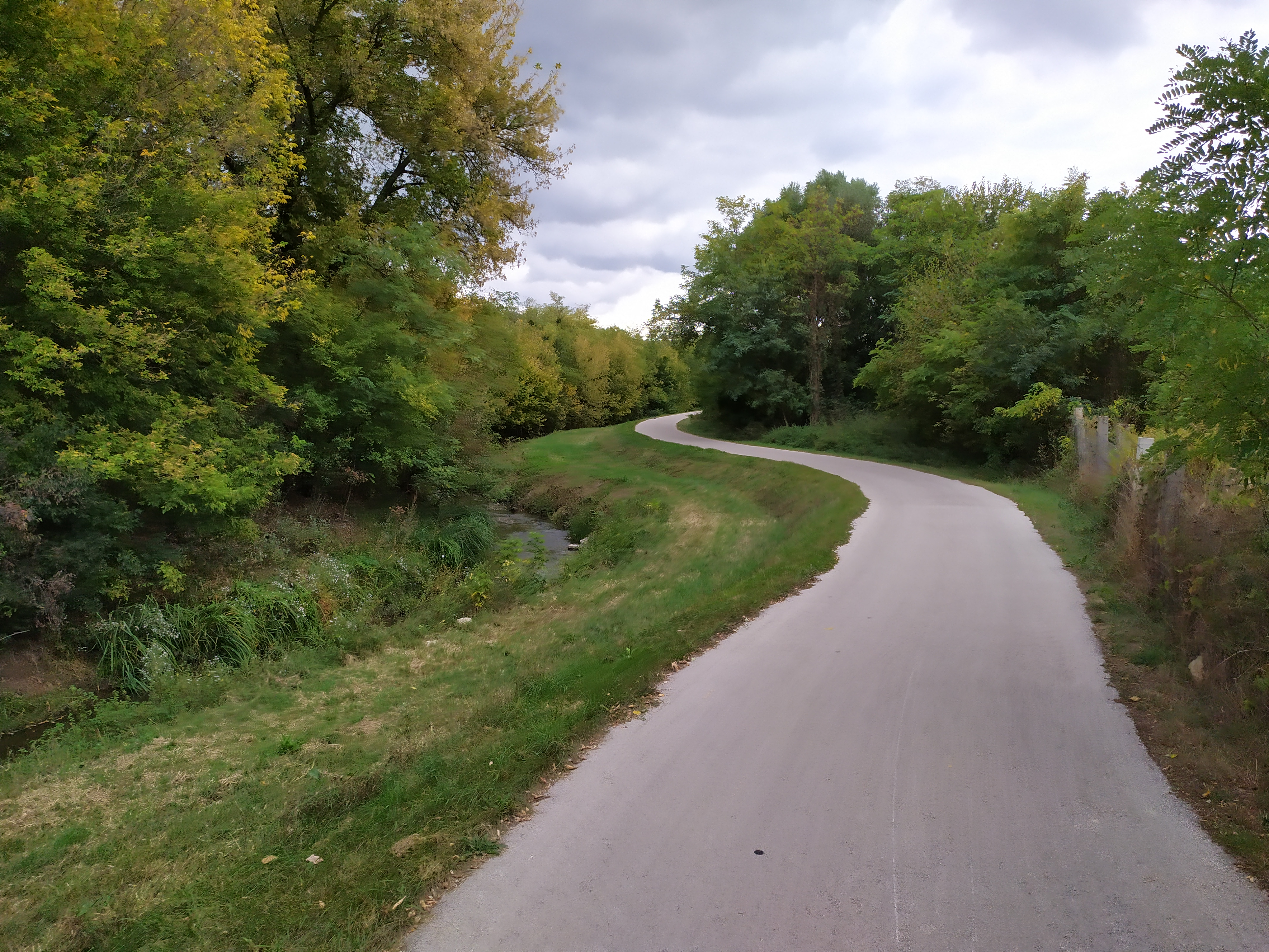 Cycleway along Által-ér stream